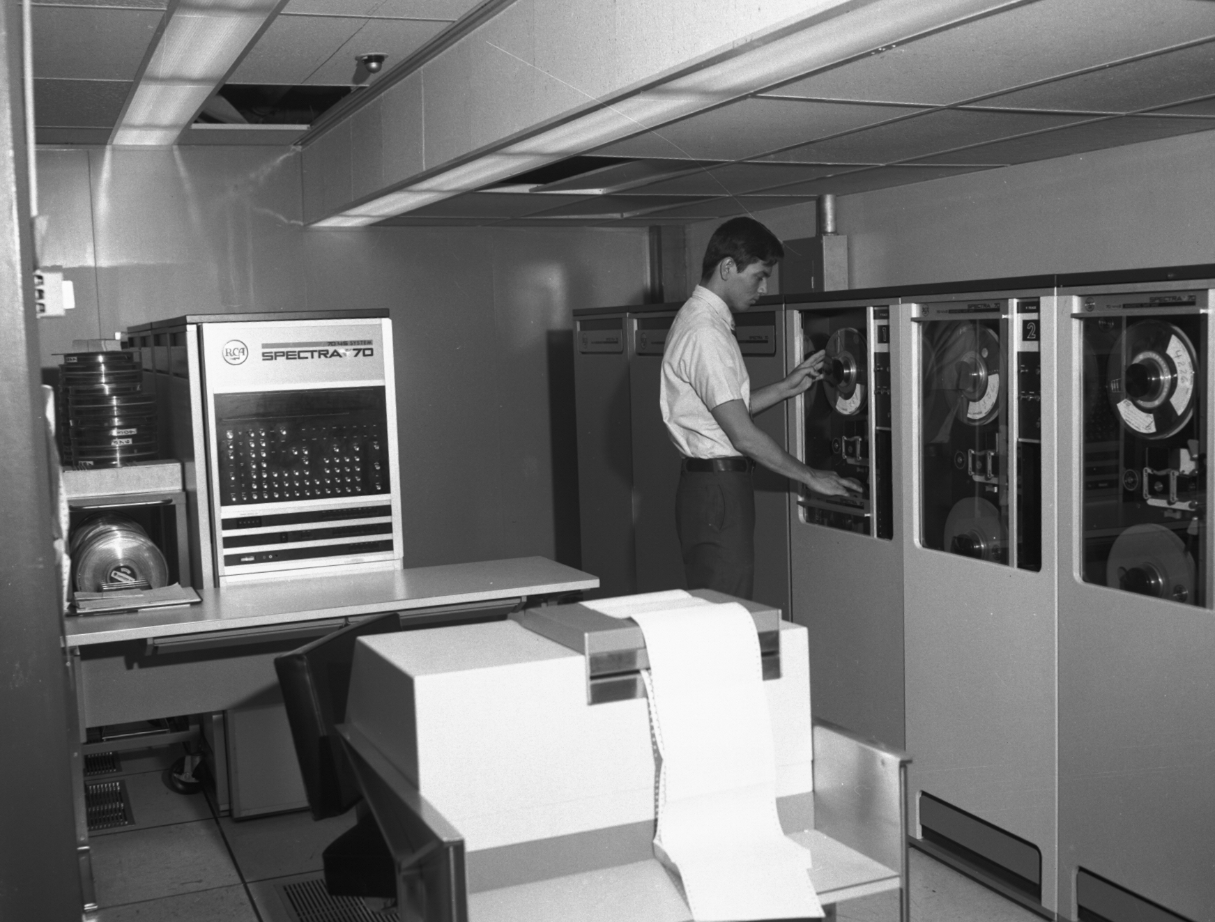 There are no known copyright restrictions on this image. All future uses of this photo should include the courtesy line, "Photo courtesy Orange County Archives." Comments are welcome after reading our Comment Policy .